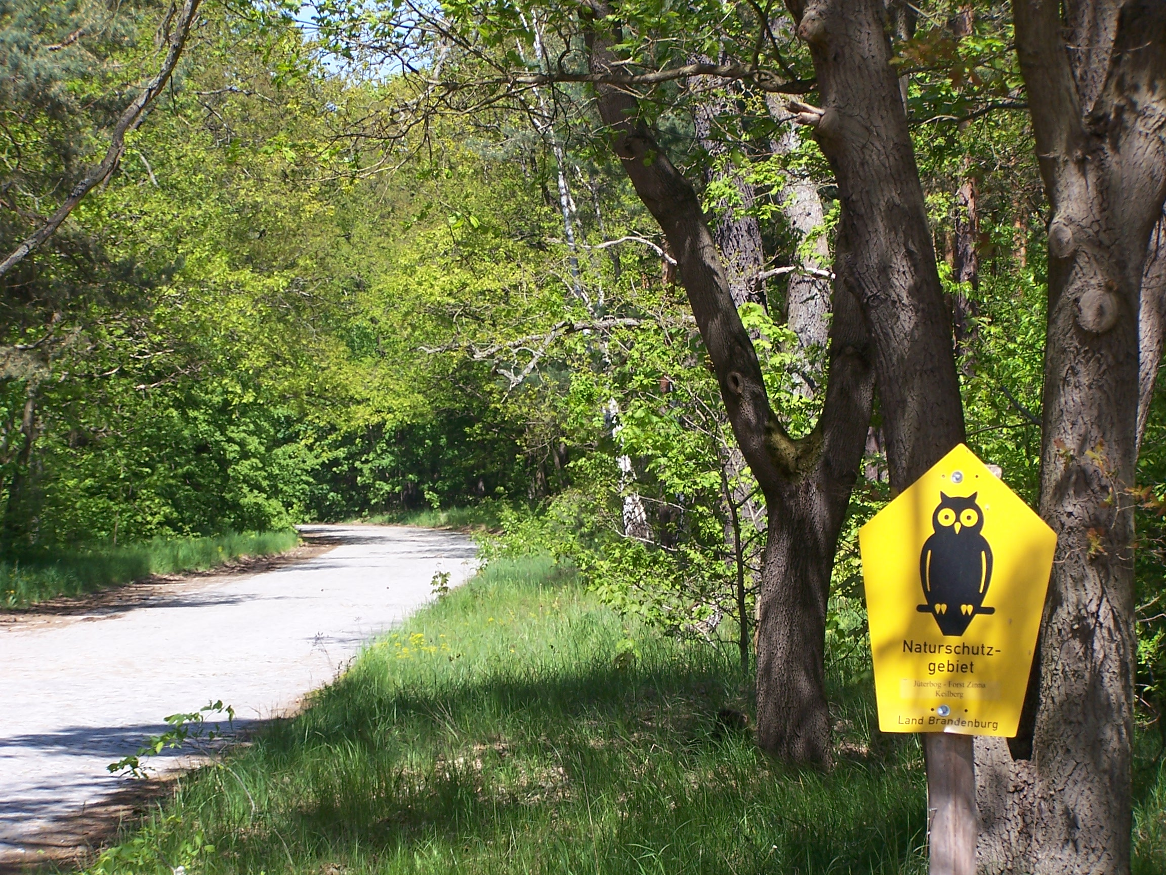 Access from the former Street B101